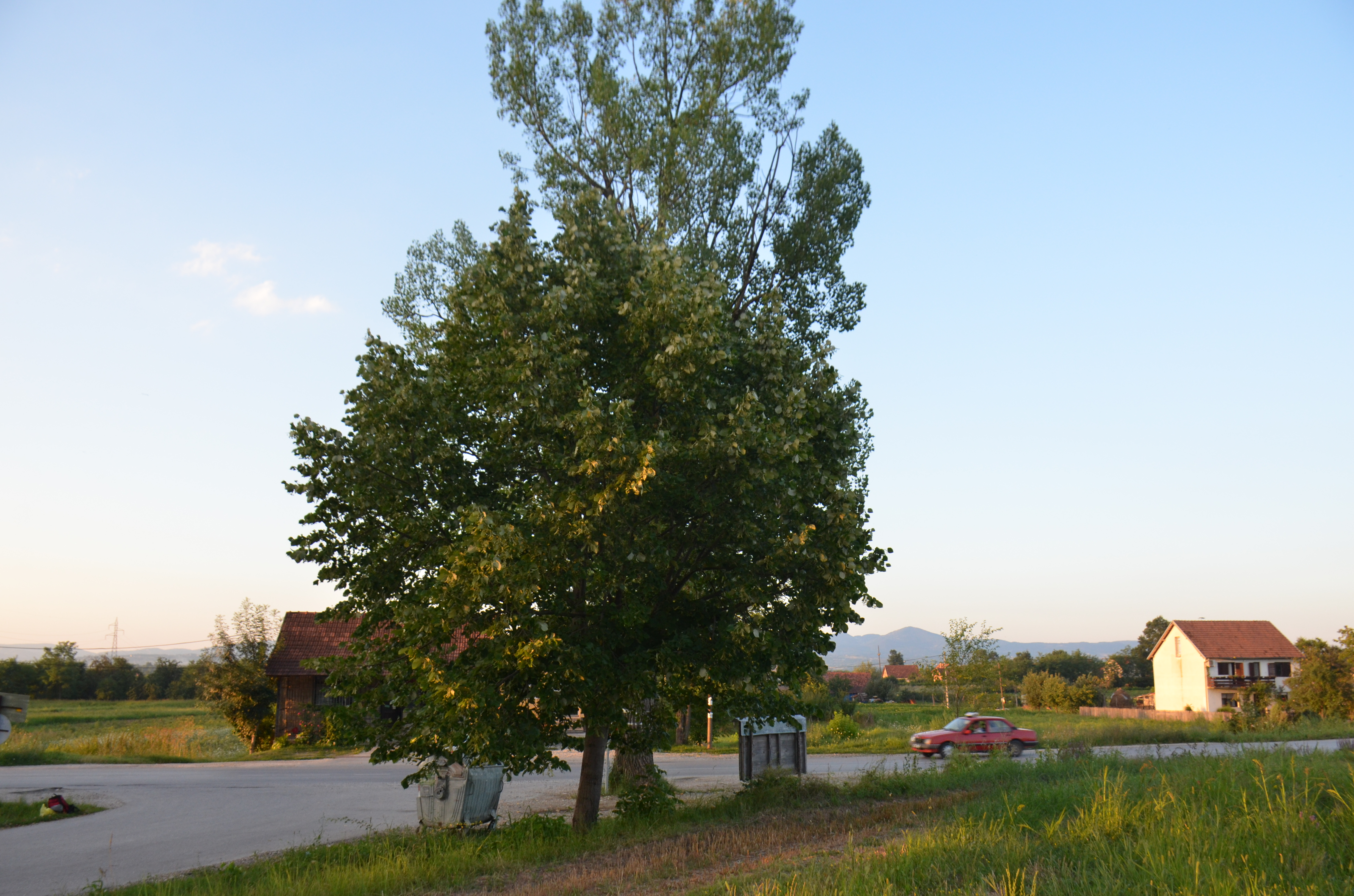 Zapis - Sacred Tree, Linden in village Viljuša, municipality Čačak, Serbia Srpski (latinica): Zapis - Ivankina lipa, selo Viljuša, Opština Čačak, Moravički okrug, Srbija Српски (ћирилица): Запис - Иванкина липа, село Виљуша, Општина Чачак, Моравички округ, Србија